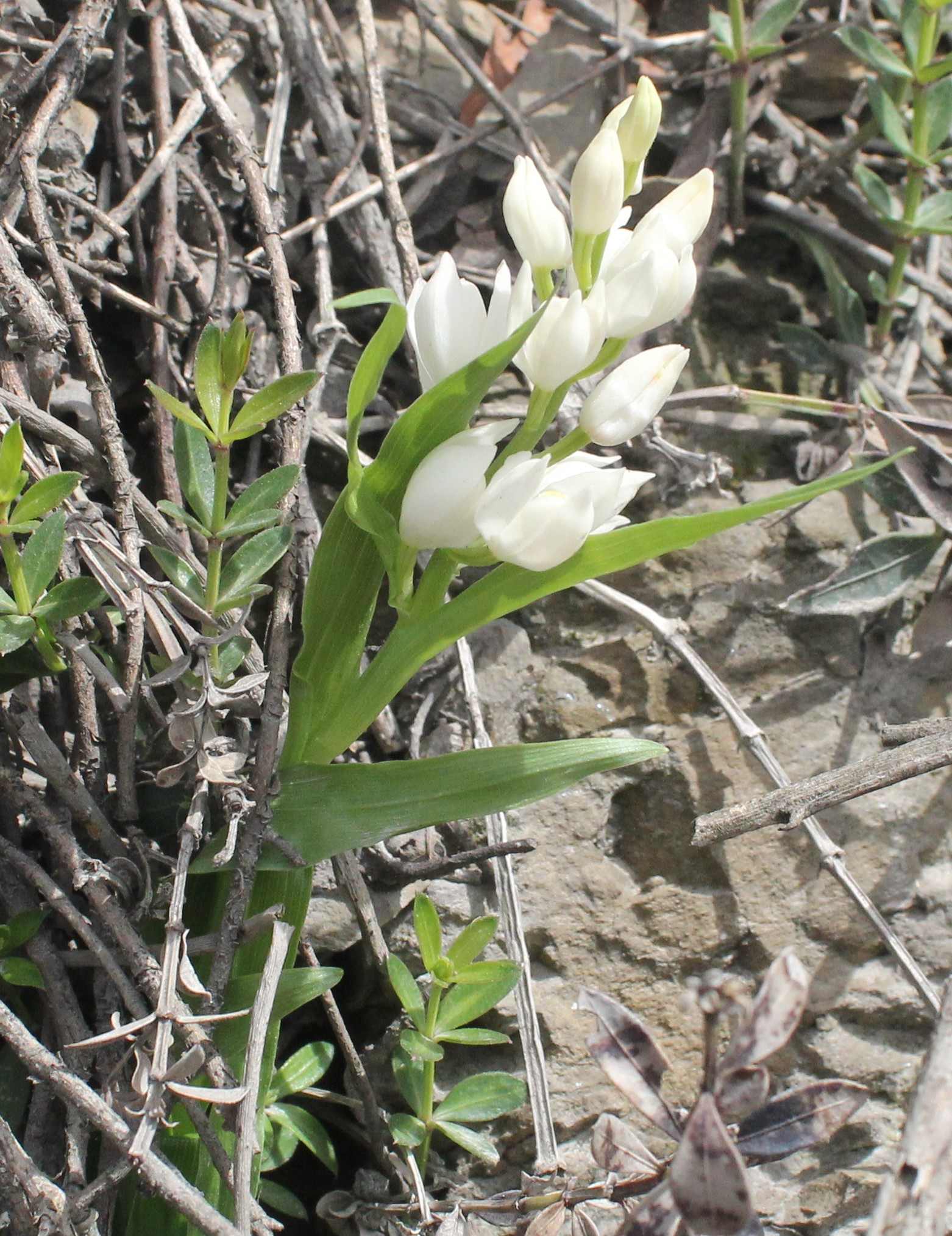 Cephalanthera longifolia general